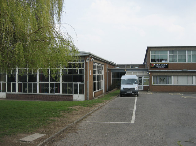 Glyn Derw High School, Ely. Main entrance into Glyn Derw High School, as seen from Penally Road entrance gate on a Saturday morning